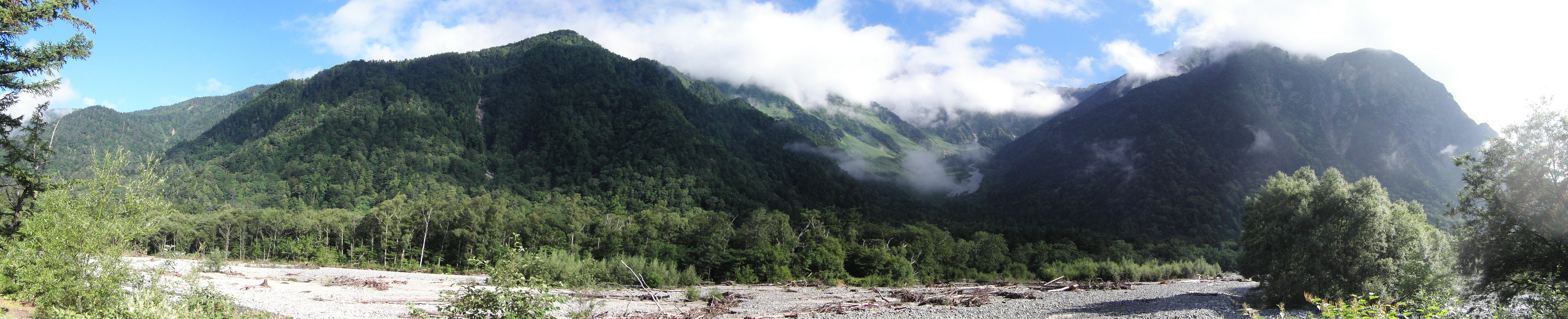 Panoramic view of the Kamikouchi valley, Japanese alps, Nagano prefecture, Japan. View of the valley in front of the Hotaka-dake mountain, from the camping area. Composed from 6 images.